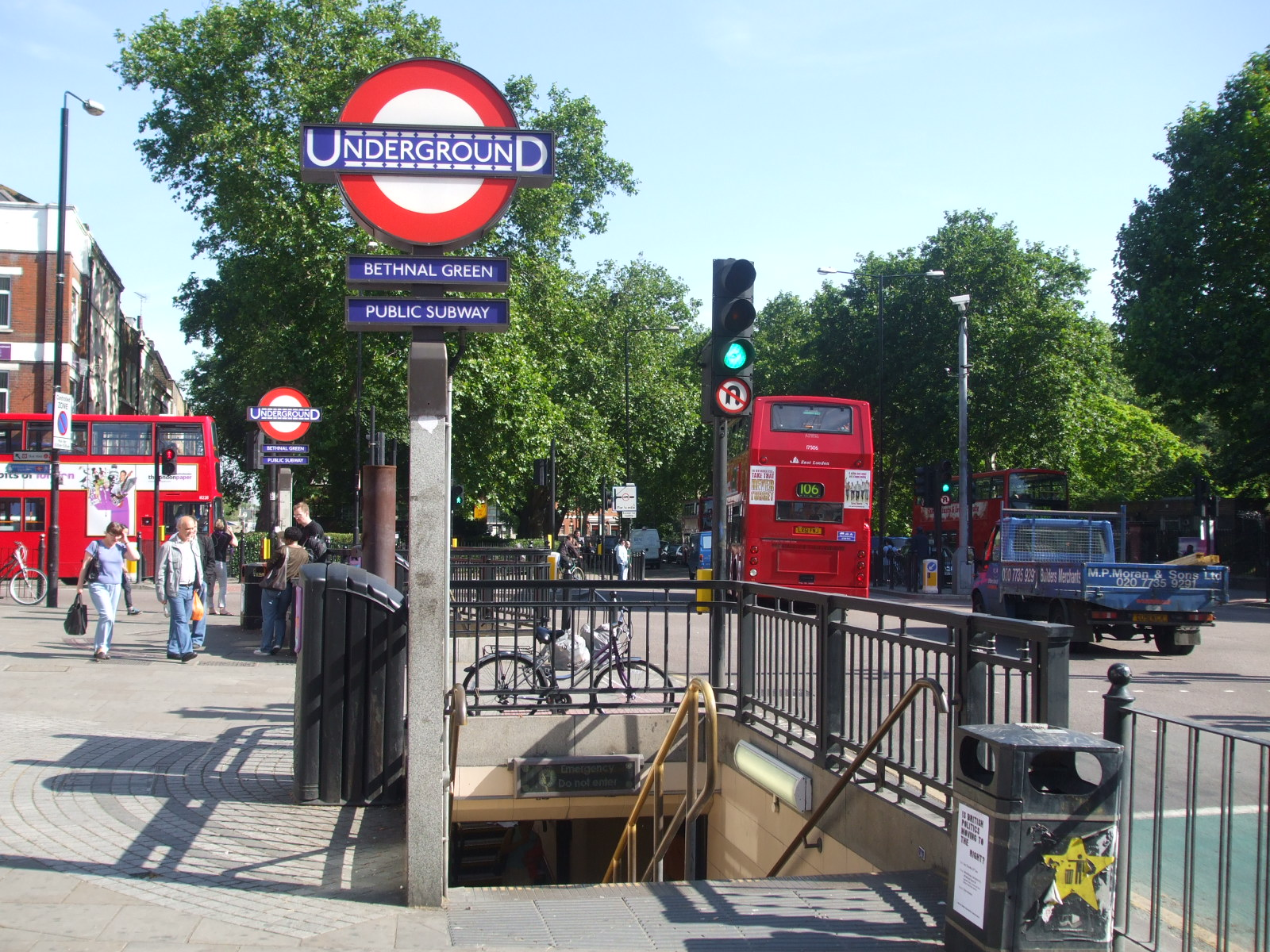 Bethnal Green tube station southwestern entrance